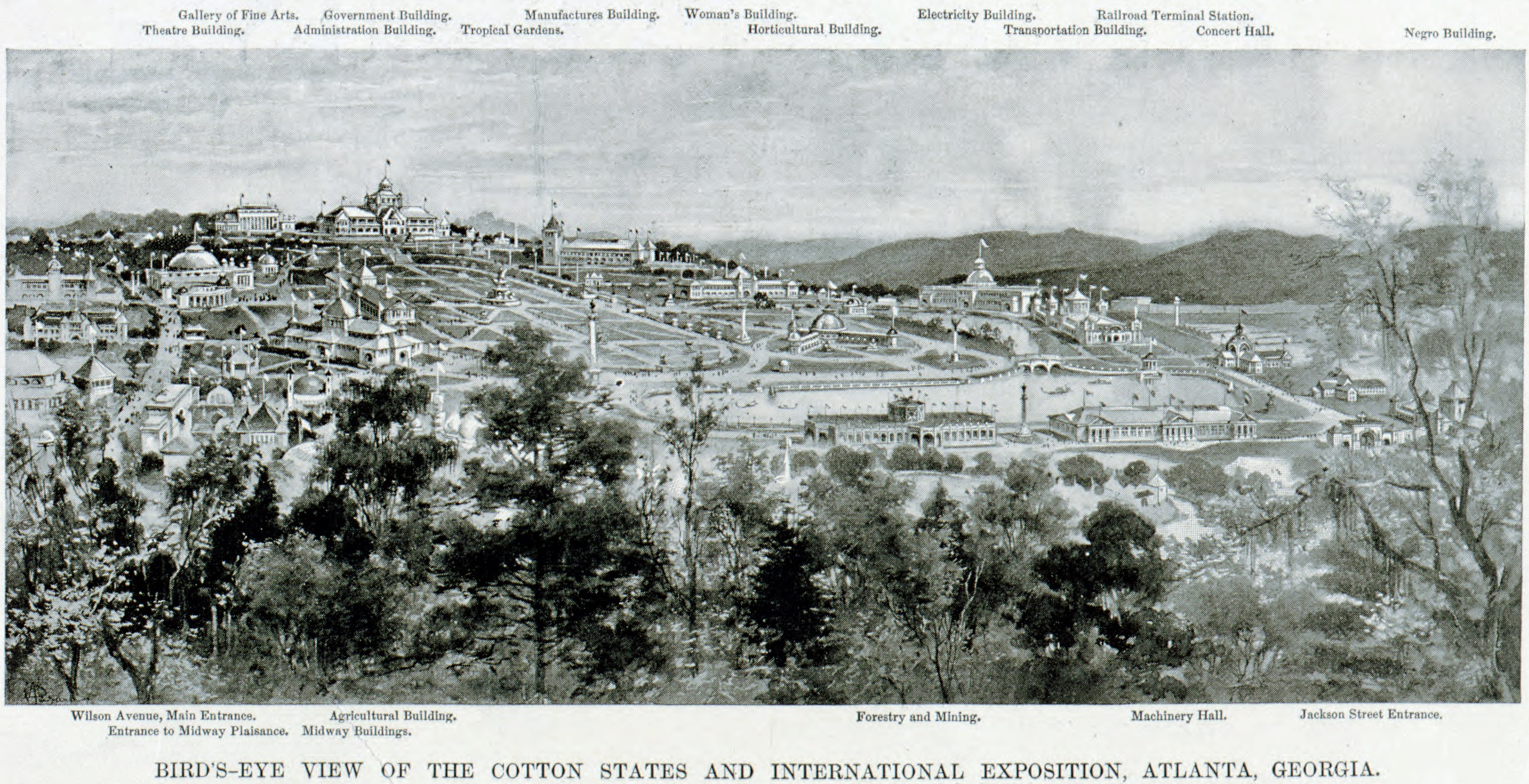 This illustration of a bird's-eye view of Piedmont Park in 1895 appeared in Harper's Weekly in an article title "The Cotton States and International Exposition." Above and below the drawing, it lists the buildings created specifically for the Expo: Gallery of Fine Arts, Government Building, Manufacturing Building, Woman's Building, Electricity Building, Railroad Terminal Station, Theatre Building, Administration Building,Tropical Gardens, Horticultural Building, Transportation Building, Concert Hall, Negro Building, Wilson Avenue, Main Entrance, Agricultural Building, Forestry and Mining, Machinery Hall, Jackson Street Entrance, Entrance to Midway Plaisance, Midway Buildings. The artist's signature is in the lower left-hand corner, but is nearly illegible.